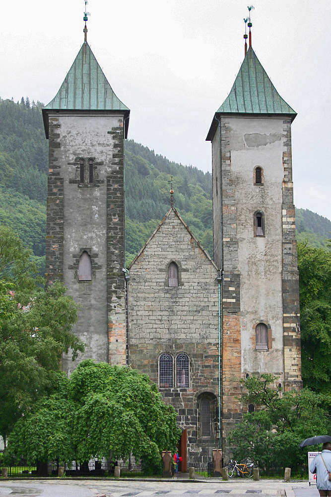 Edit of Image:Bergen mariakirken2.jpg. Shadow/Highlights treatment, sharpened.